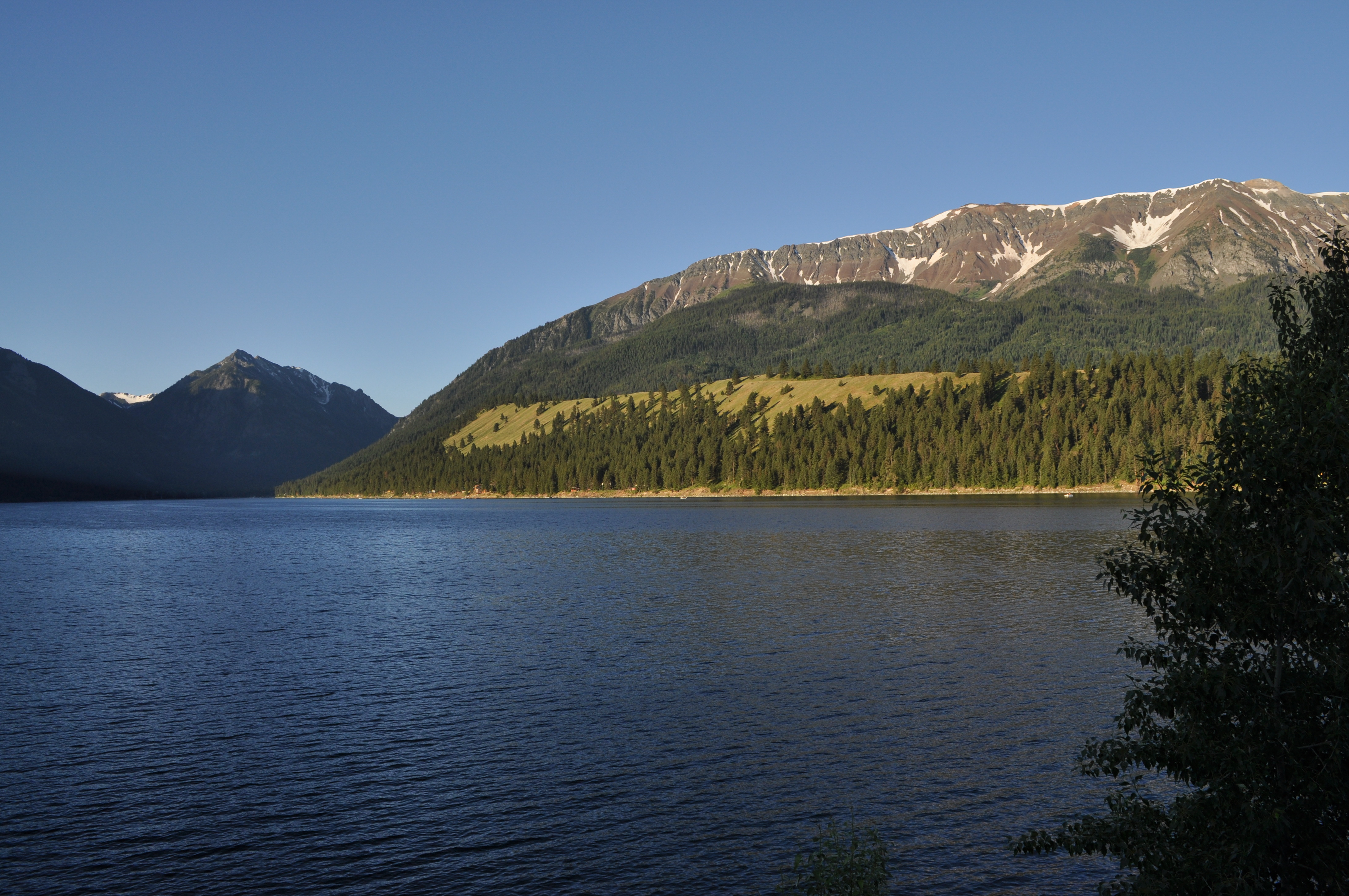 Along the Nez Perce National Historic Trail, Wallow Mountains and Wallow Lake near Jospeh, OR. US Forest Service photo, by Roger Peterson